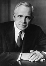 The image is a scan of a photograph of a US government employee, William Weber Coblentz, who died in 1962. According to the US Library of Congress there "are no known restrictions on photographs by Harris & Ewing", the latter being the photographic name on the print. This photograph appears in W. W. Coblentz's 1951 memoir and other pre-1950 works. Astrochemist 00:58, 27 August 2006 (UTC)